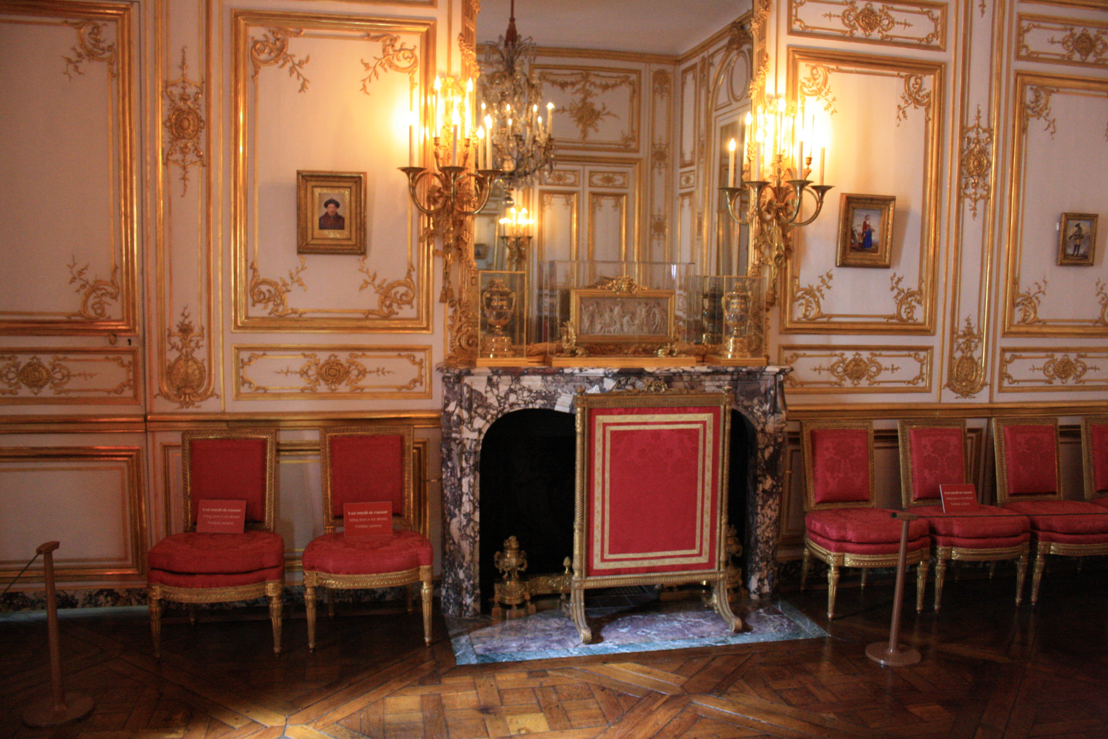 Petit appartement du roi (small apartment of the king) in the Palace of Versailles in Versailles, France